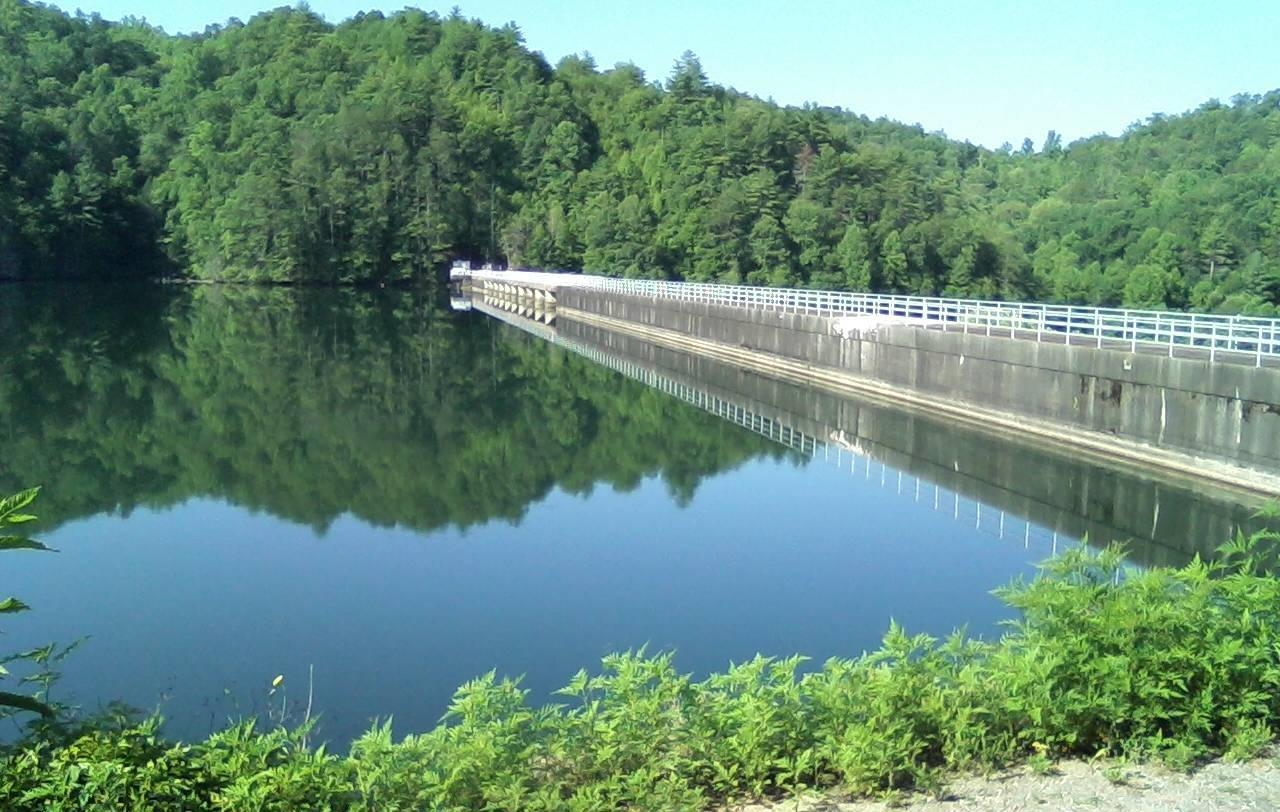 Apalachia Dam, reservior level (upper) shot